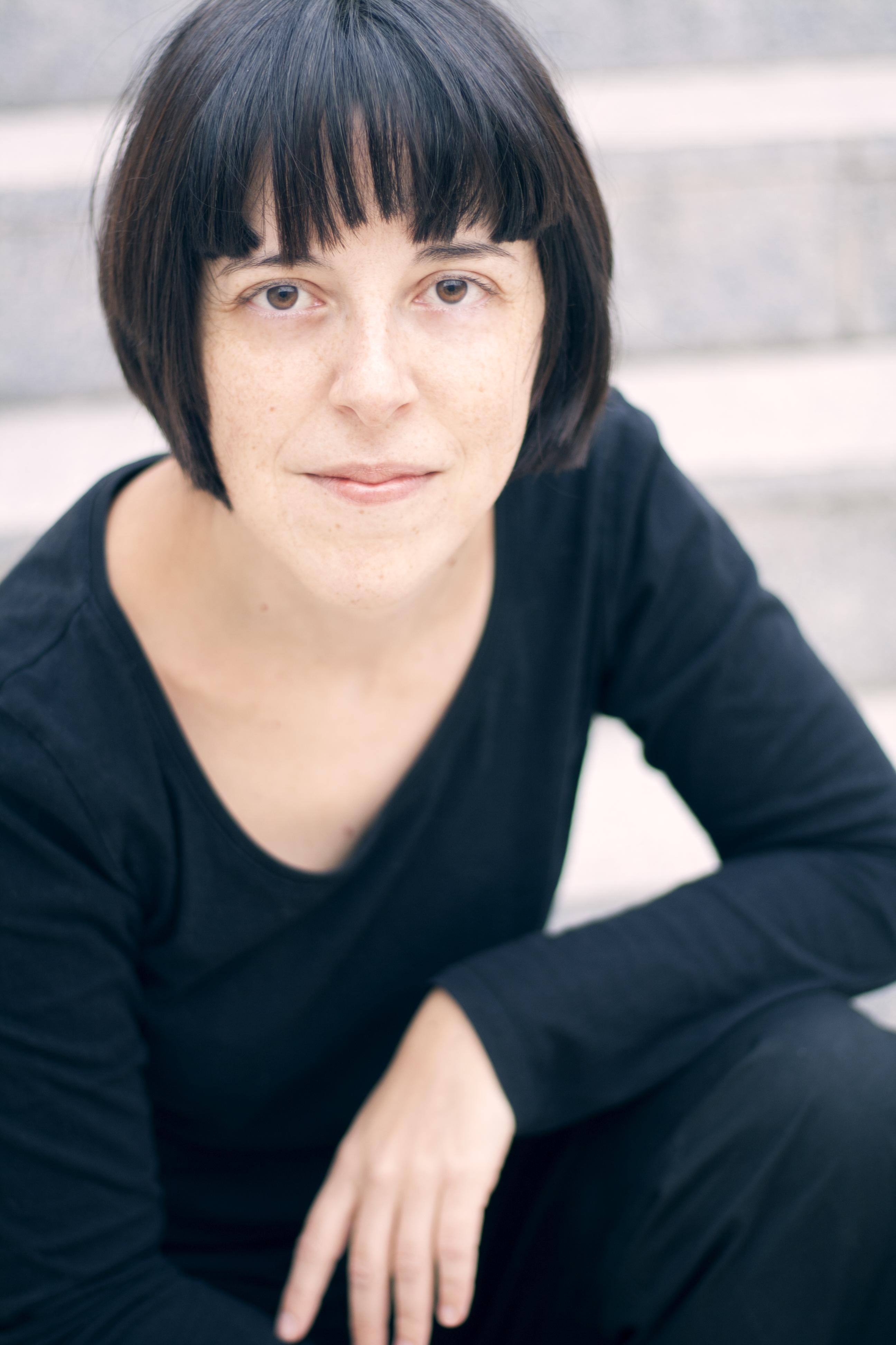 Photography in a public space of Pilar Adón, spanish writer of Las Efimeras (Galaxia Gutenberg). It has Common open rights and free use.